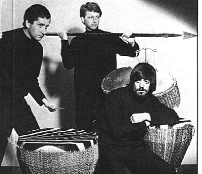 album press shot